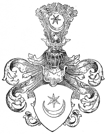 Coat of Arms Leliwa from reprint of "Nomenclator" by Wojciech Wiiuk Kojałowicz, orginal work from 1658, reprint from 1905